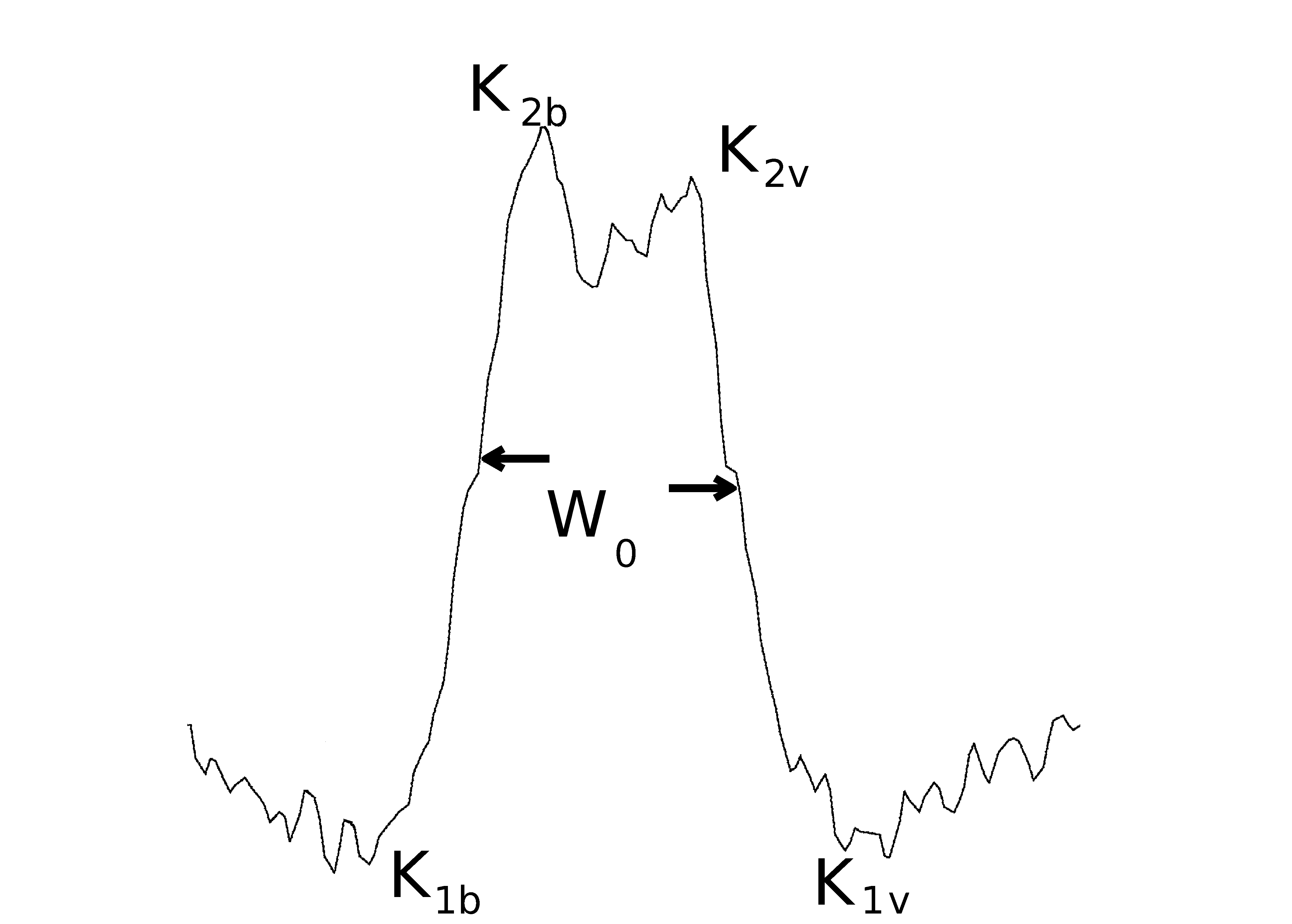 Emission profile in the core of the K line of KW 326, a dwarf star in the Praesepe open cluster. The width W0 is defined as the difference in wavelength between the point on either side of the profile, at half intensity between the K1 minimum and the K2 maximum. The spectrum was taken with the UVES spectrograph at the Very Large Telescope, and it is now publicly available in the ESO archive.